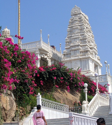 Birla Mandir in Hyderabad, India